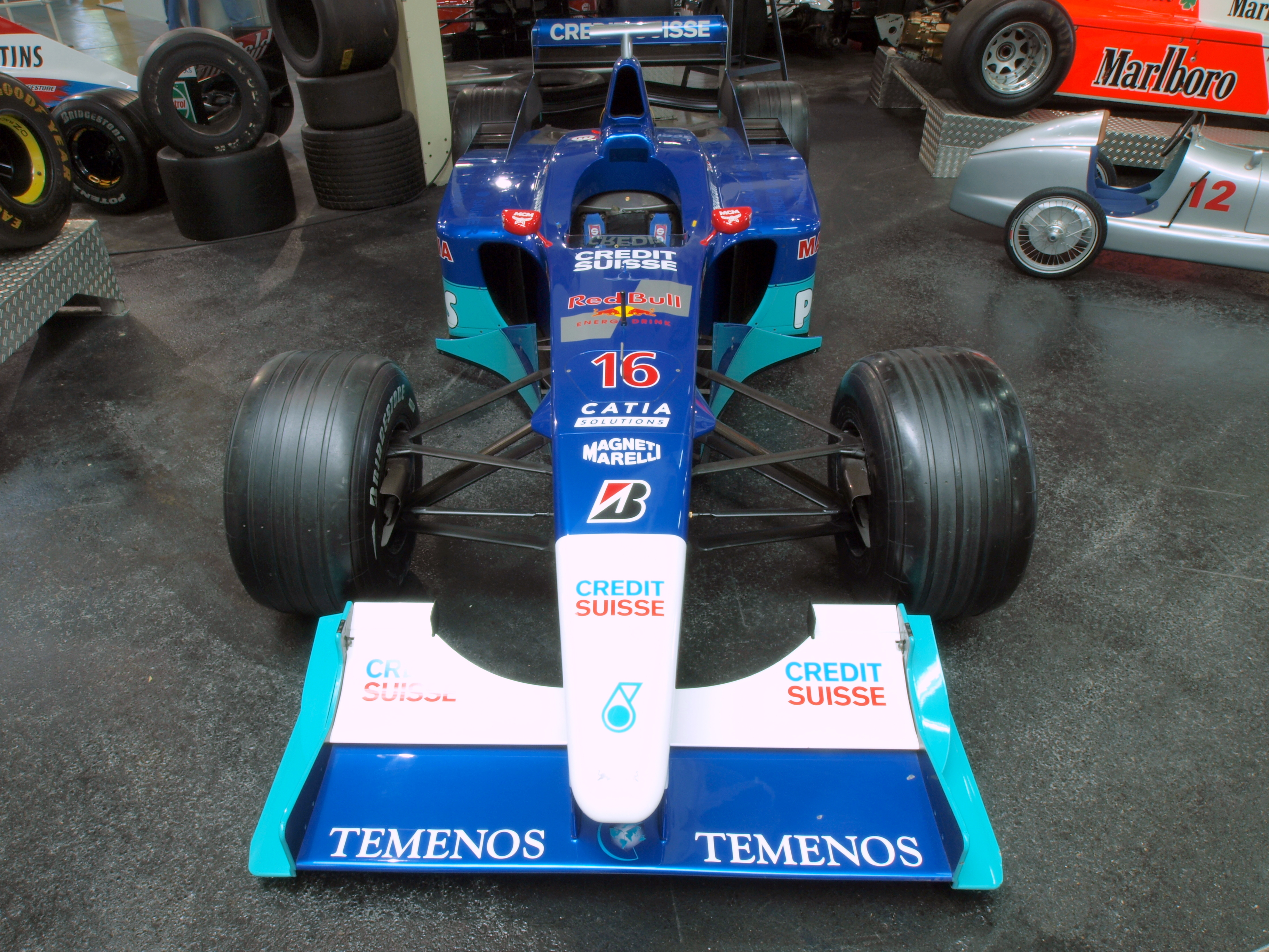 Photographed at the Auto & Technic museum Sinsheim.